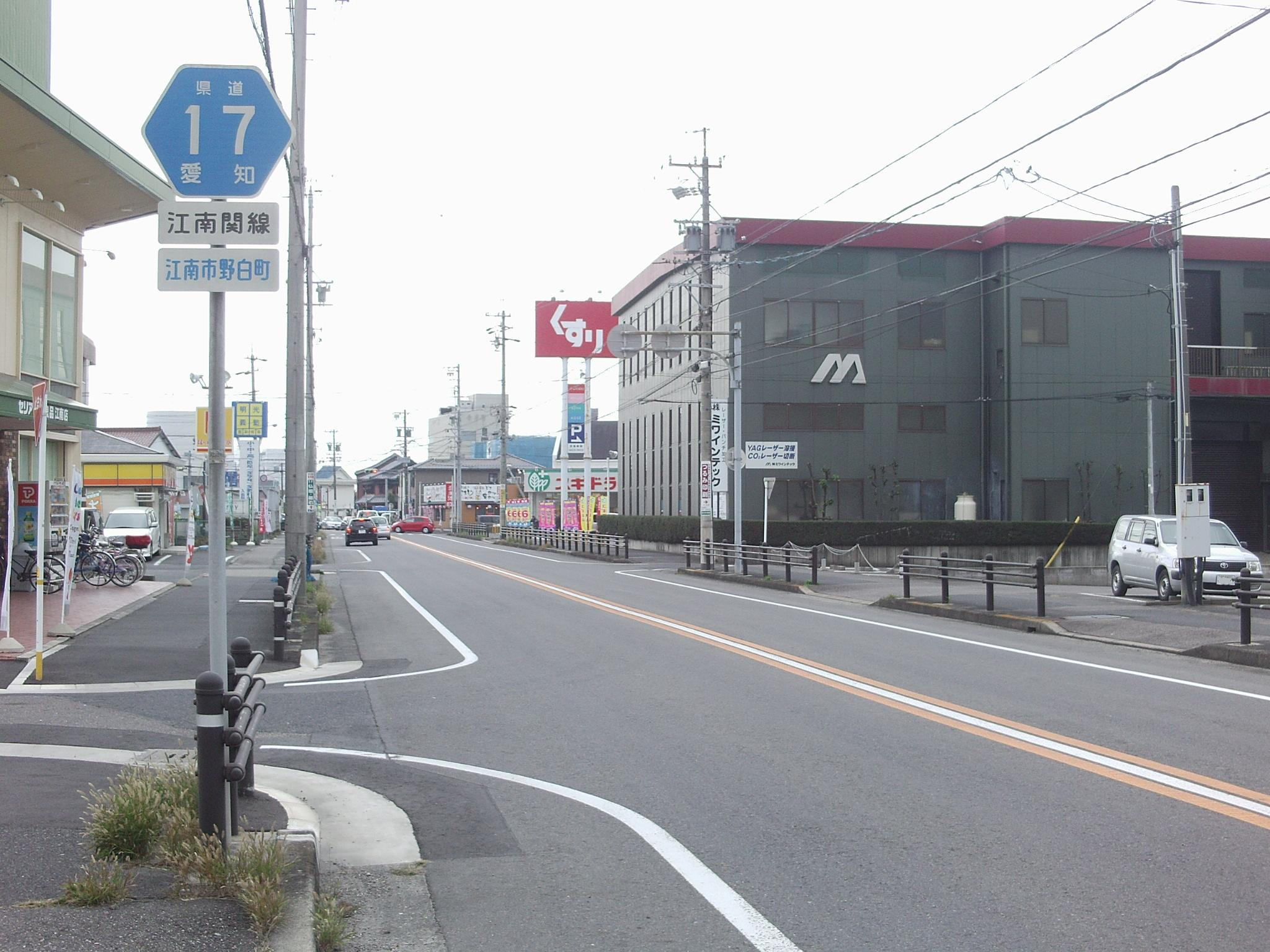 The Aichi Prefectural Road Route 17 in Nobakucho Nobaku, Konan City